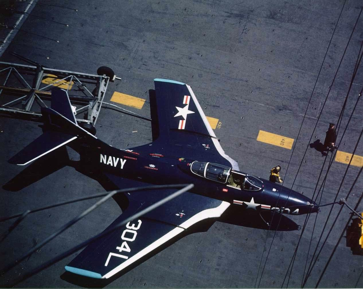 A U.S. Navy Grumman F9F-6 Cougar fighter from fighter squadron VF-73 Jesters. VF-73 was assigned to Carrier Air Group 6 (CVG-6) aboard the aircraft carrier USS Midway (CVA-41) for a deployment to the Mediterranean Sea from 8 January to 4 August 1954.